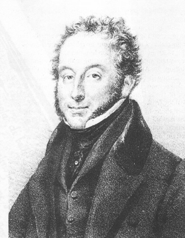 Picture of Charles Bochsa